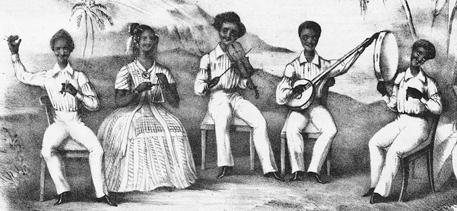 Harmoneons singing group, 1846. Detail from: Harmoneon's Carolina Melodists. Boston, Publisher: A. & J. P. Ordway. Date: 1846